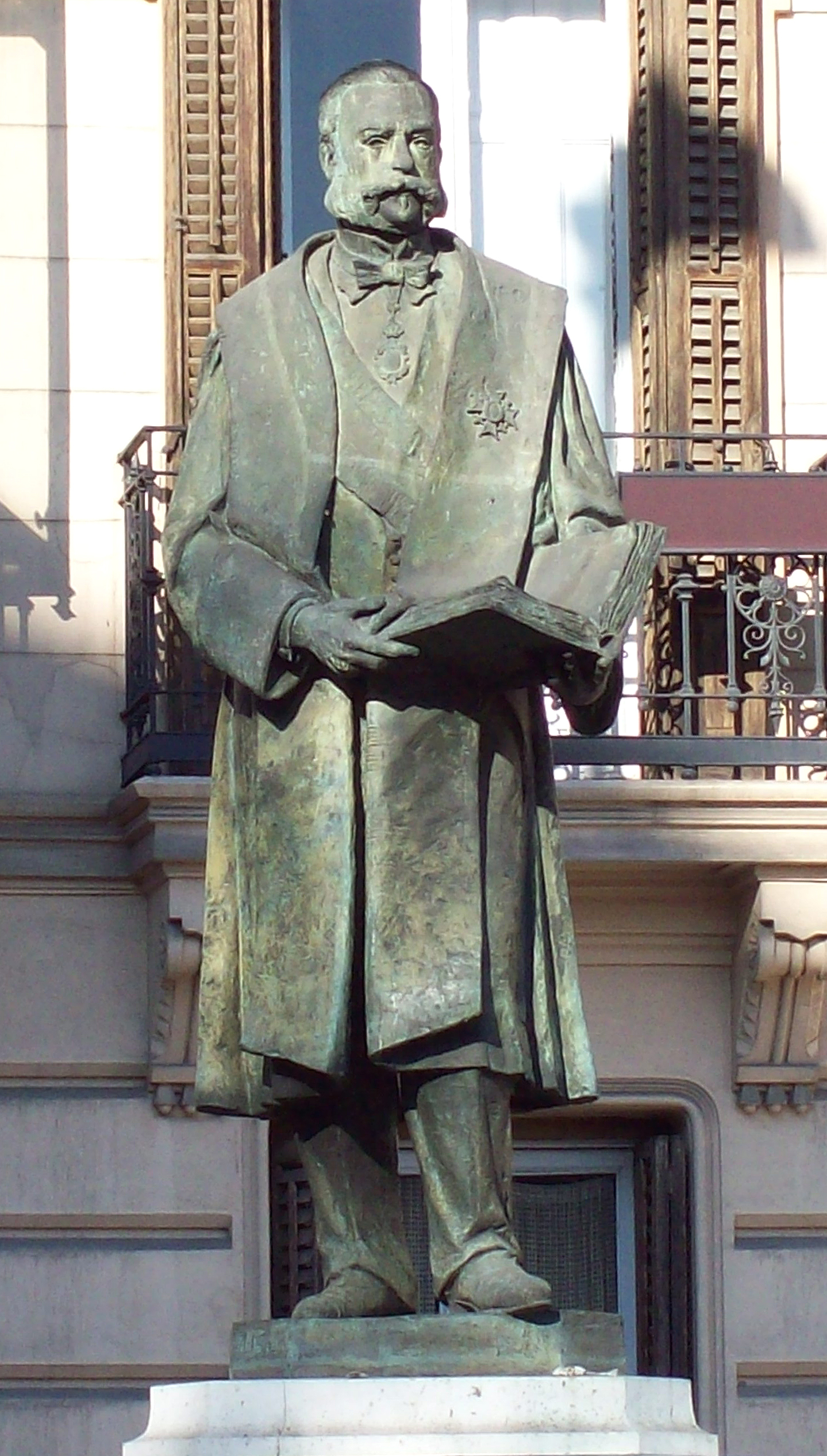 Partial view of the monument to Manuel Alonso Martínez (1827–1891) at the Plaza de Alonso Martínez (square) in Madrid (Spain). Made by sculptor José Luis Parés Parra and inaugurated on January 13, 1994.